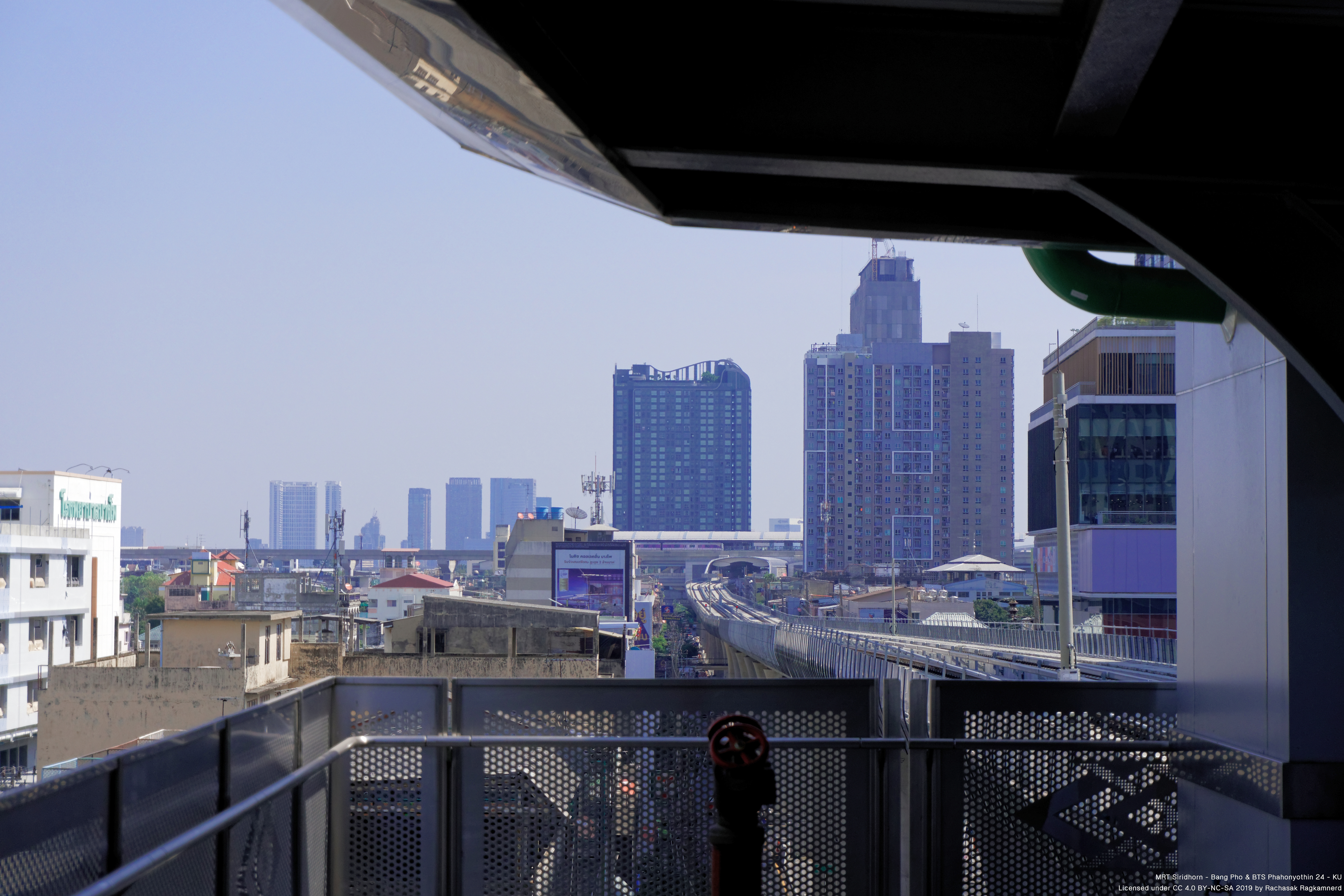 MRT Bang Pho - Rail toward Tao Poon station